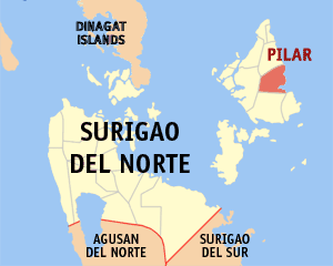 Map of the Surigao del Norte showing the location of Pilar